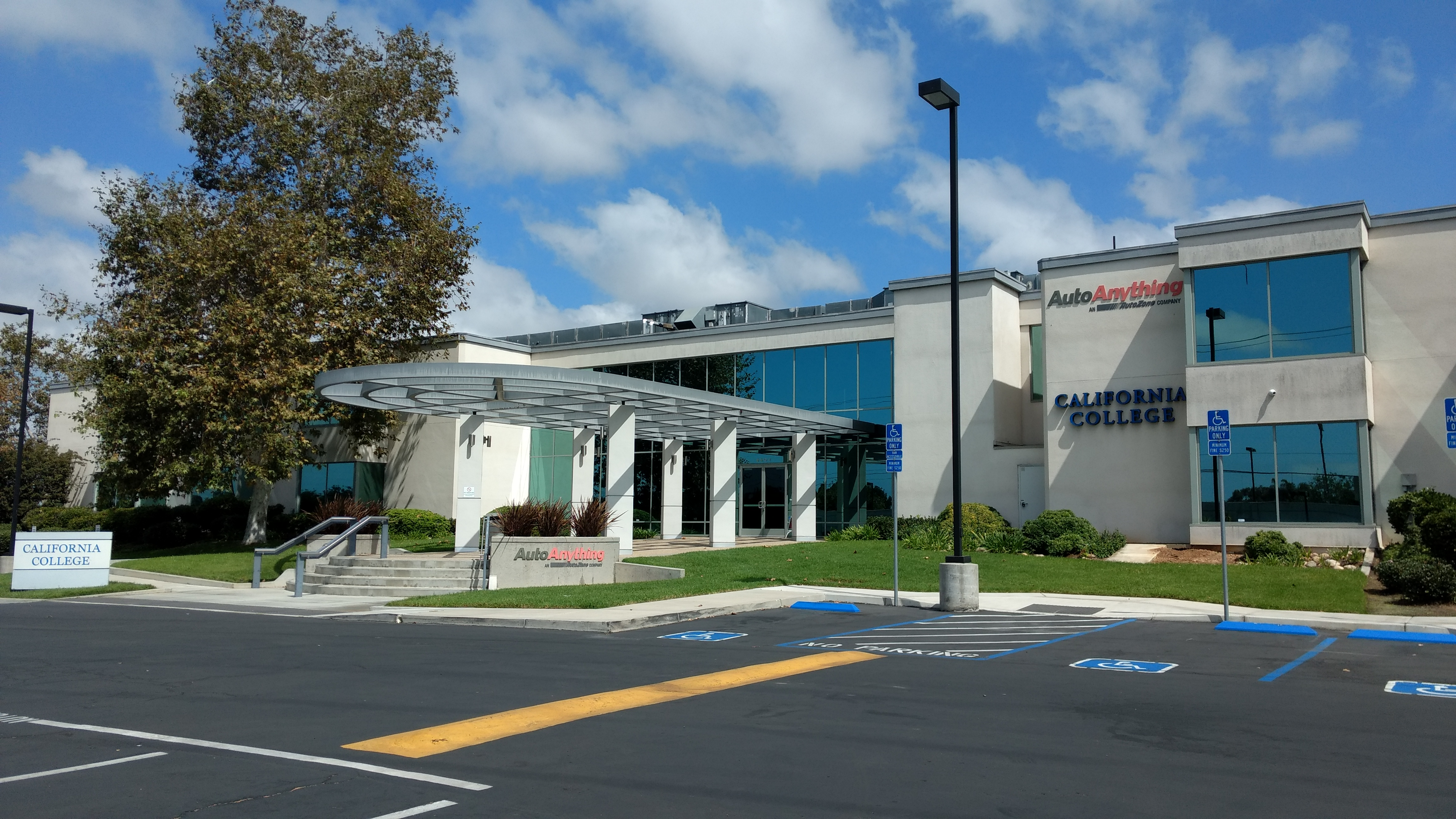 California College at 6602 Convoy Ct #100, San Diego, CA 92111